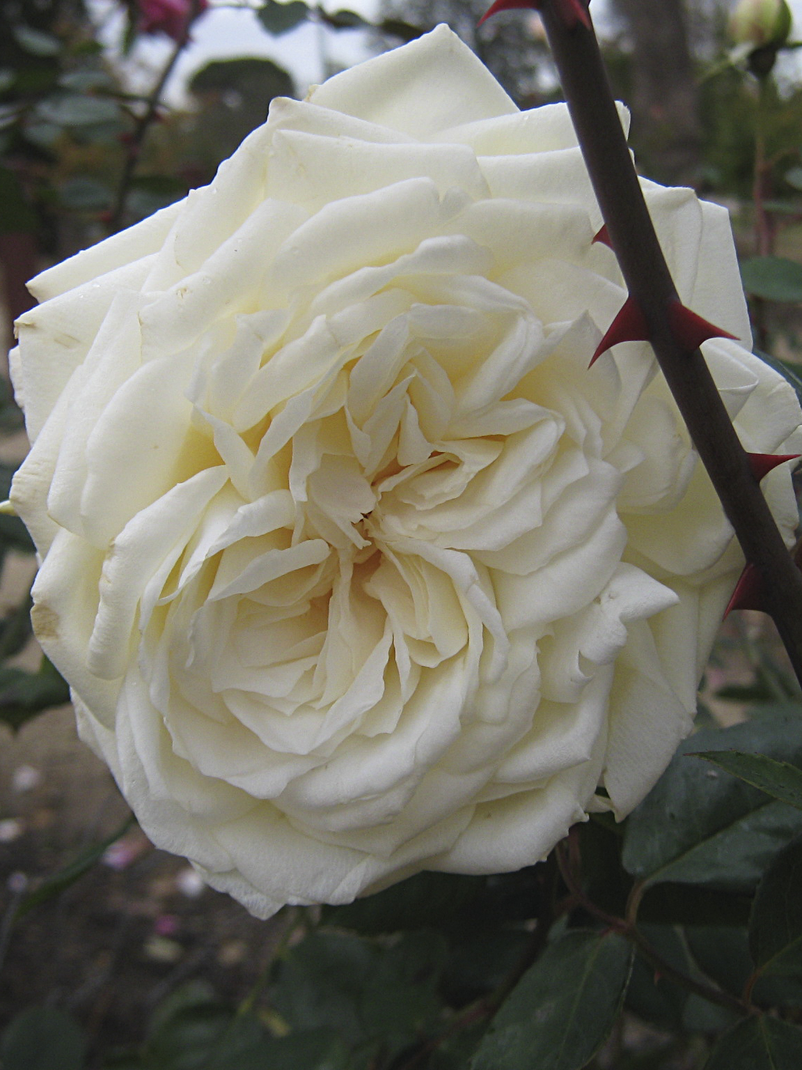 Rose 'Kaiserin Auguste Viktoria', Hybrid Tea by Lambert 1891; Photographed Nieuwesteeg Heritage Rose Garden, Maddingley Park, Bacchus Marsh